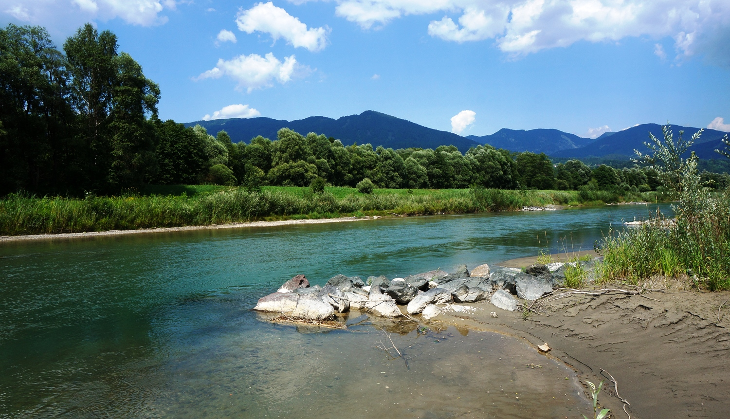 Gail River in the protected landscape area Görtschacher Moos - Obermoos, municipality Feistritz an der Gail, Carinthia, Austria, European Union